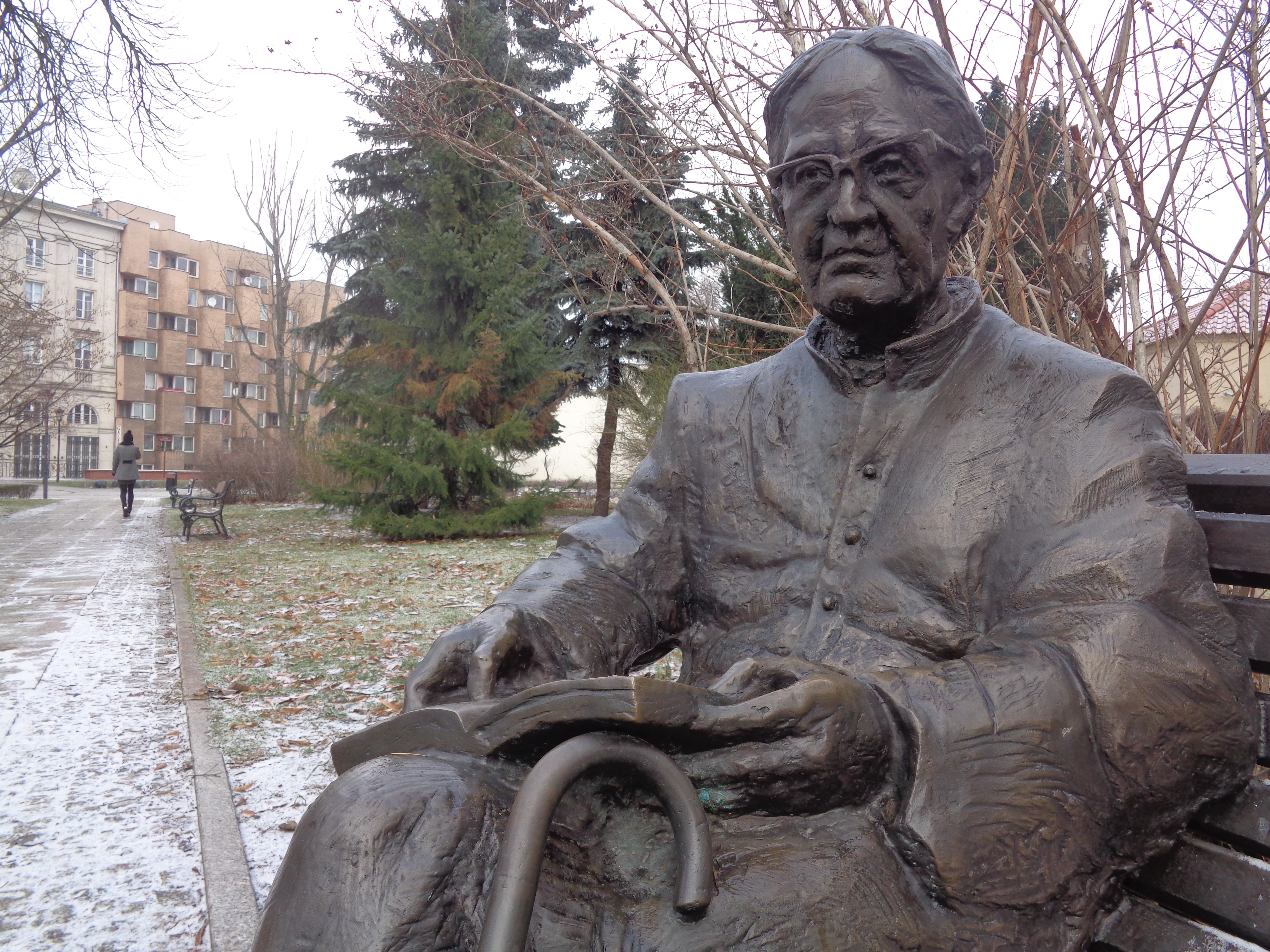 Jan Twardowski monument in Warsaw.